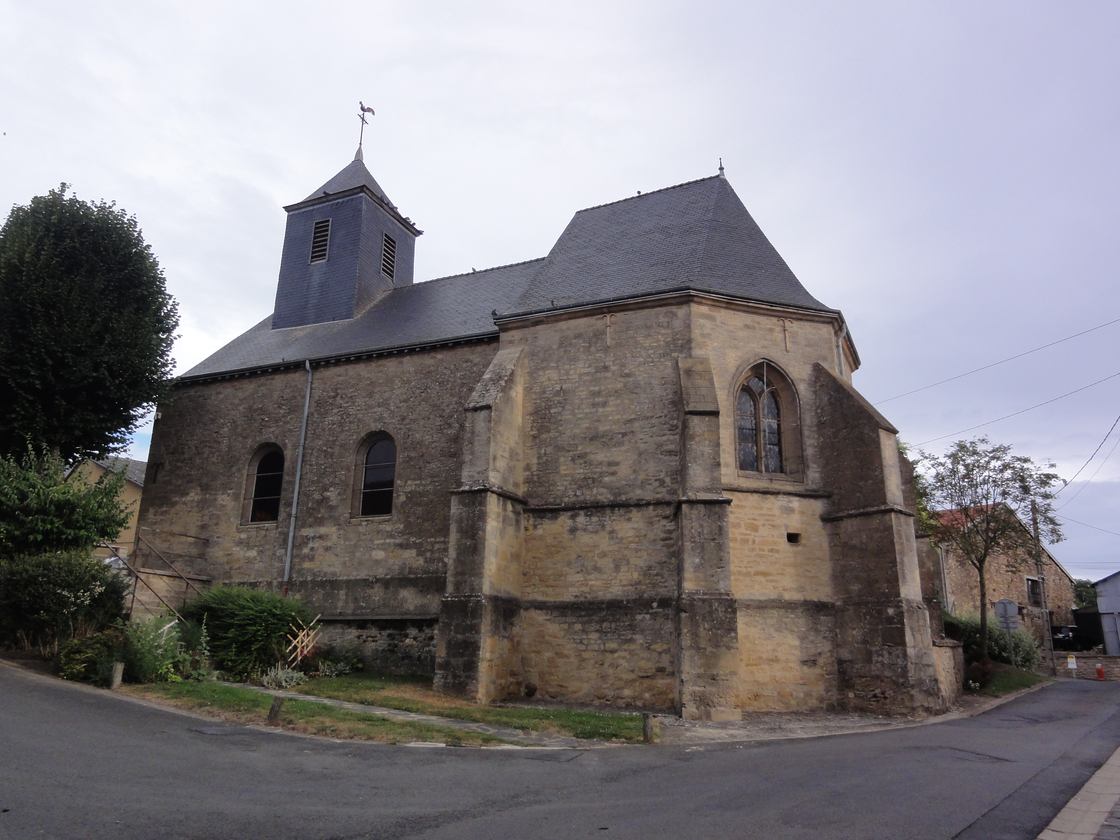 Évigny (Ardennes) église Saint-Denis